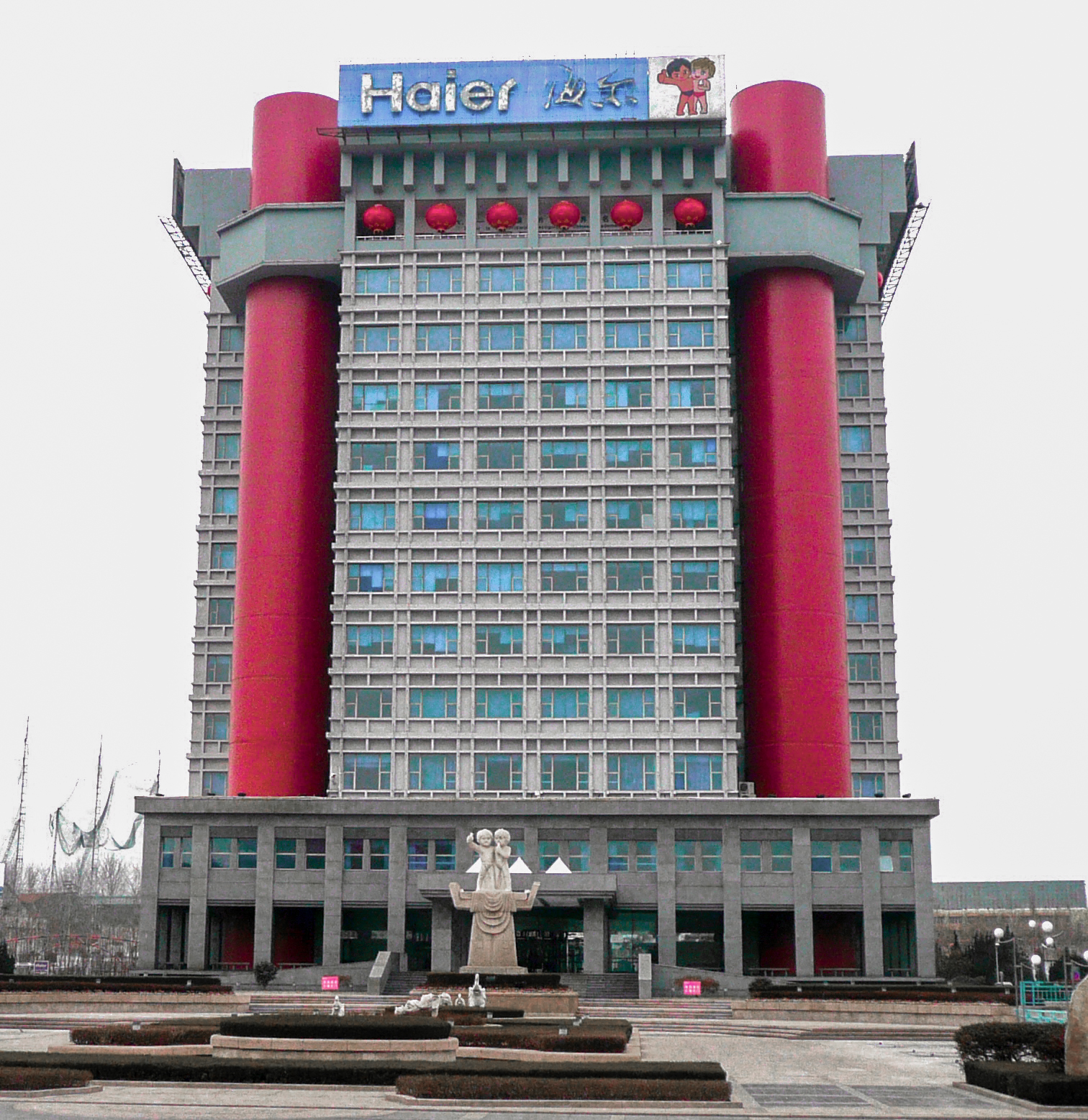 Main building of the Haier Group in Qingdao